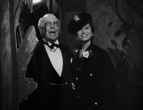 Frame from public domain trailer for 1933 Warner Bros. film Gold Diggers of 1933 showing Guy Kibbee and Aline MacMahon.